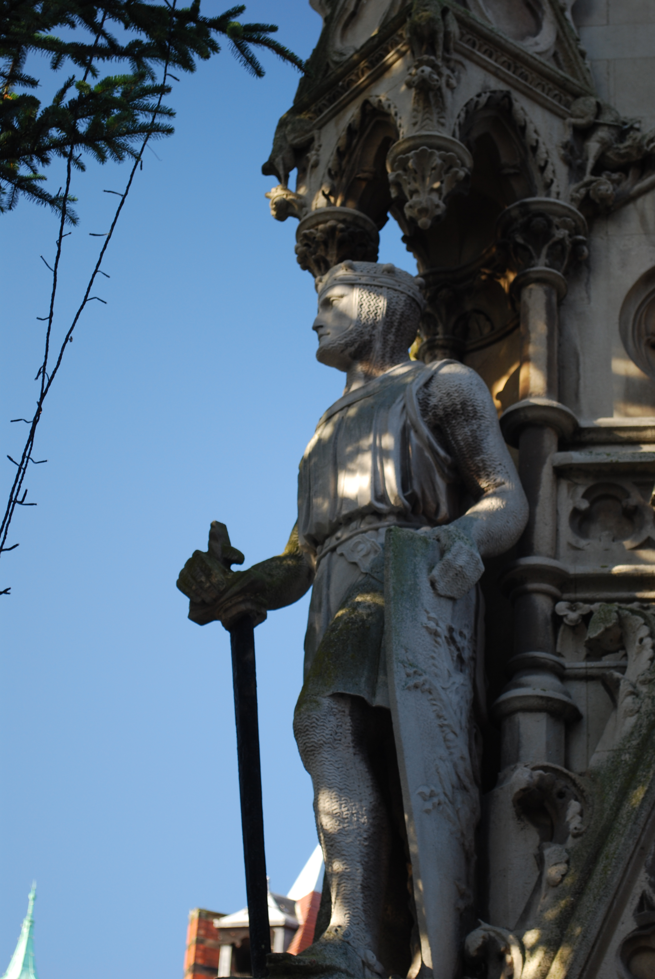 A statue of Simon de Montfort on the Haymarket Memorial Clock Tower in Leicester, England.